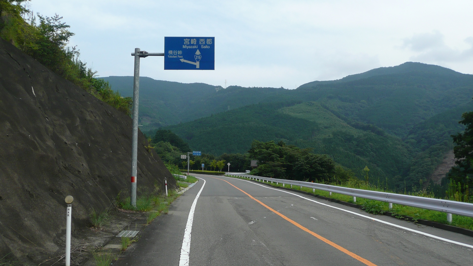 National Route 219 (Yokotani, Yunomae Town, Kumamoto, Japan)